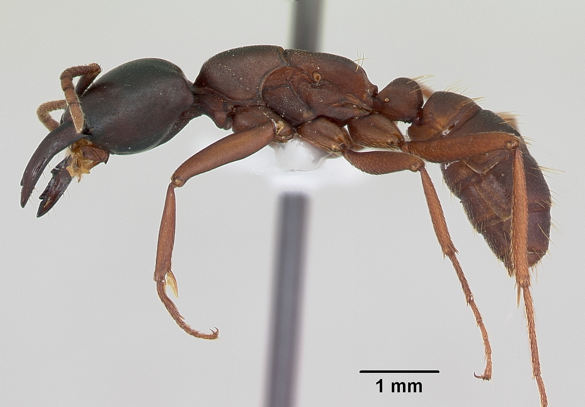 Profile view of ant Dorylus emeryi specimen casent0172656.